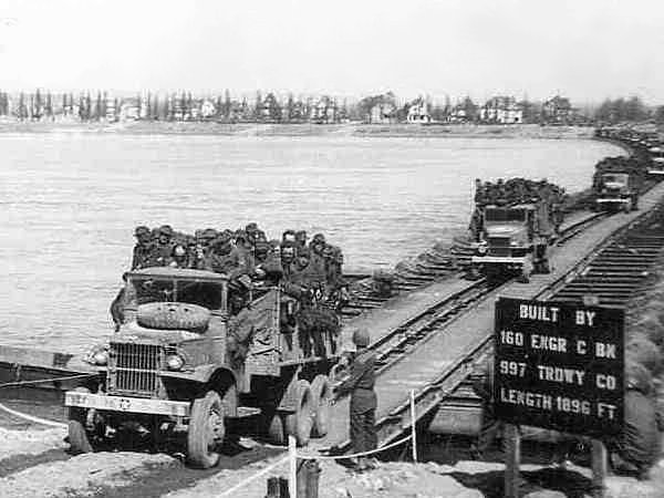 U.S. Army CCKW 2 1/2 ton 6x6 cargo trucks crossing the Rhine River near Mainz, Germany, in late March or April 1945. The U.S. 80th Infantry Division crossed the Rhine river in the vicinity of Mainz starting on 0100 hrs on 28 March 1945. At noon on the same day, XX. Corps engineers of the 160th Combat Engineer Battalion started construction of a 580 m (1,896 ft) treadway bridge across the Rhine at Mainz (see sign). [1] The men on the trucks seem to be German prisoners.